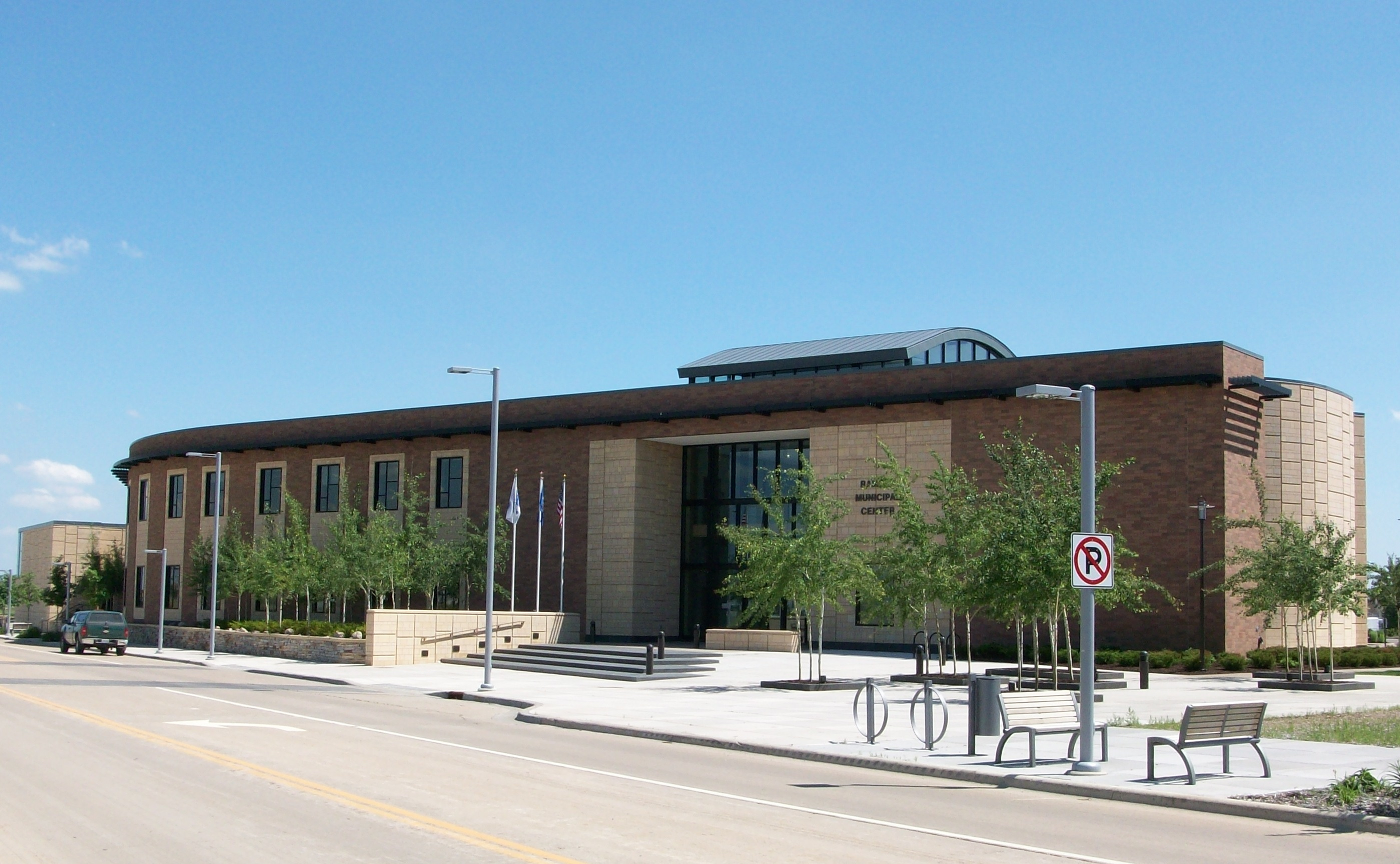 Ramsey Municipal Center on Sunwood Drive.